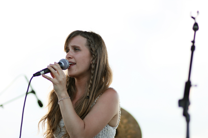 Amber Coffman of Dirty Projectors at JellyNYC's Pool Party (July 19th, 2009)